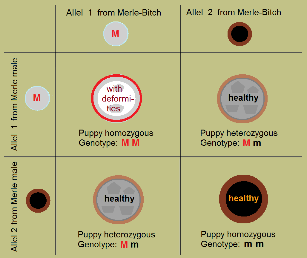 Pea scheme of the disastrous crossbreeding of two merle dogs